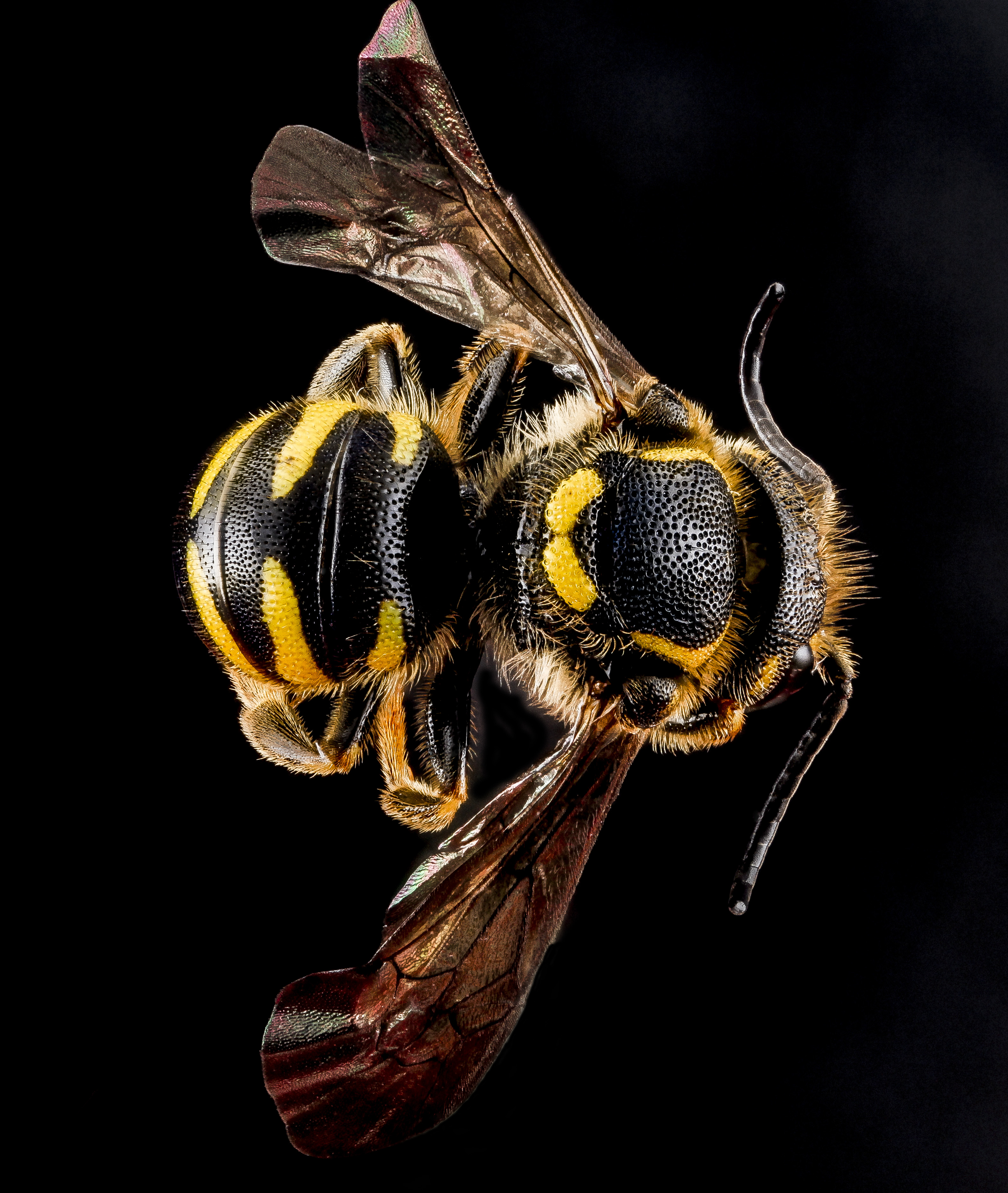 Paranthidium jugatorium, male, first record for Maryland, Allegany County